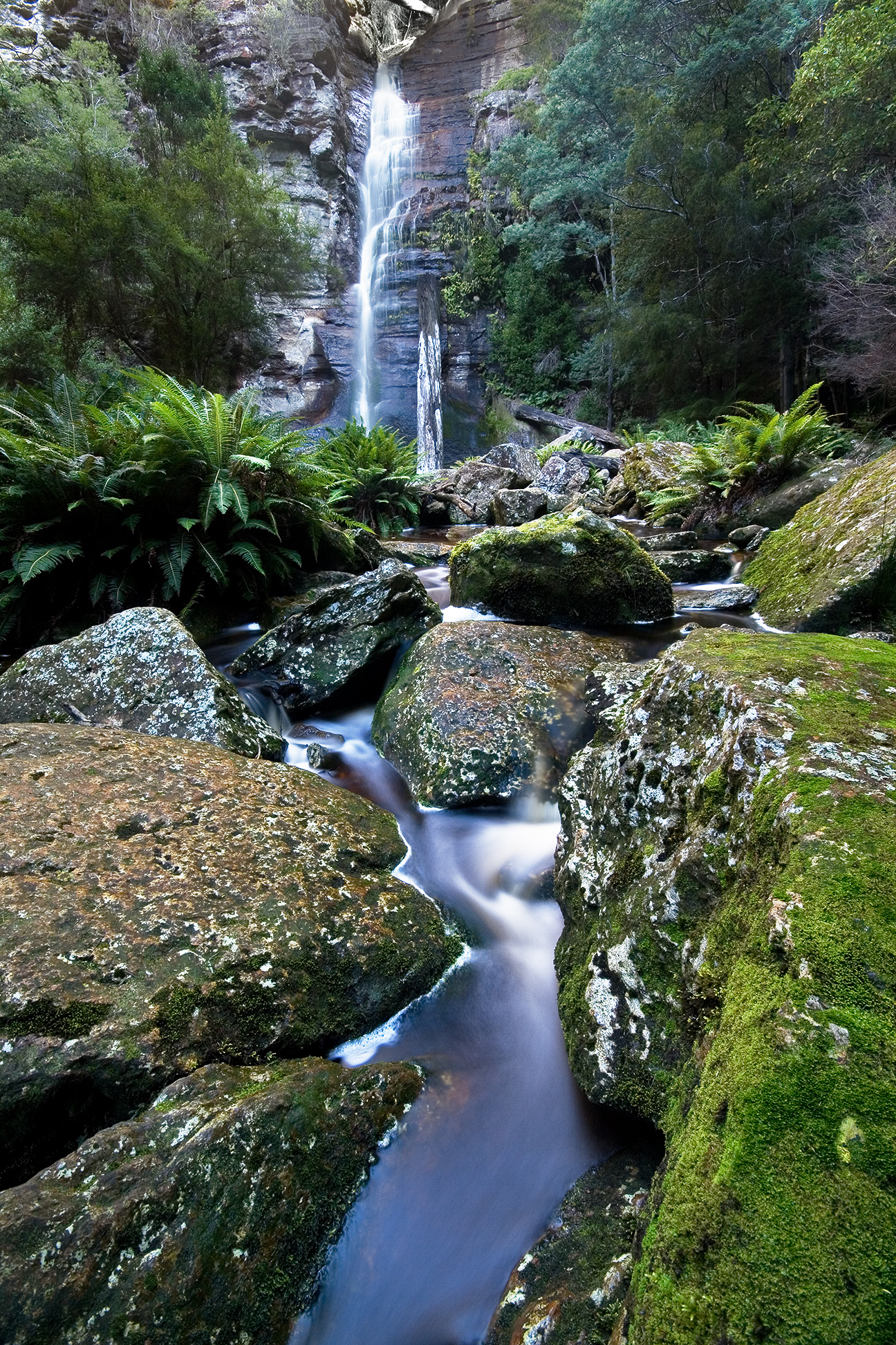 Snug Falls, Snug, Tasmania, Australia Camera data Camera Canon EOS 400D Lens Sigma 10-20mm F4-5.6 EX DC HSM Focal length 10 mm Aperture f/11 Exposure time 20 s Sensivity ISO 100